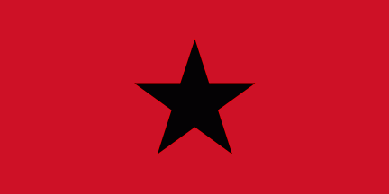 Military flag of Guinea-Bissau From